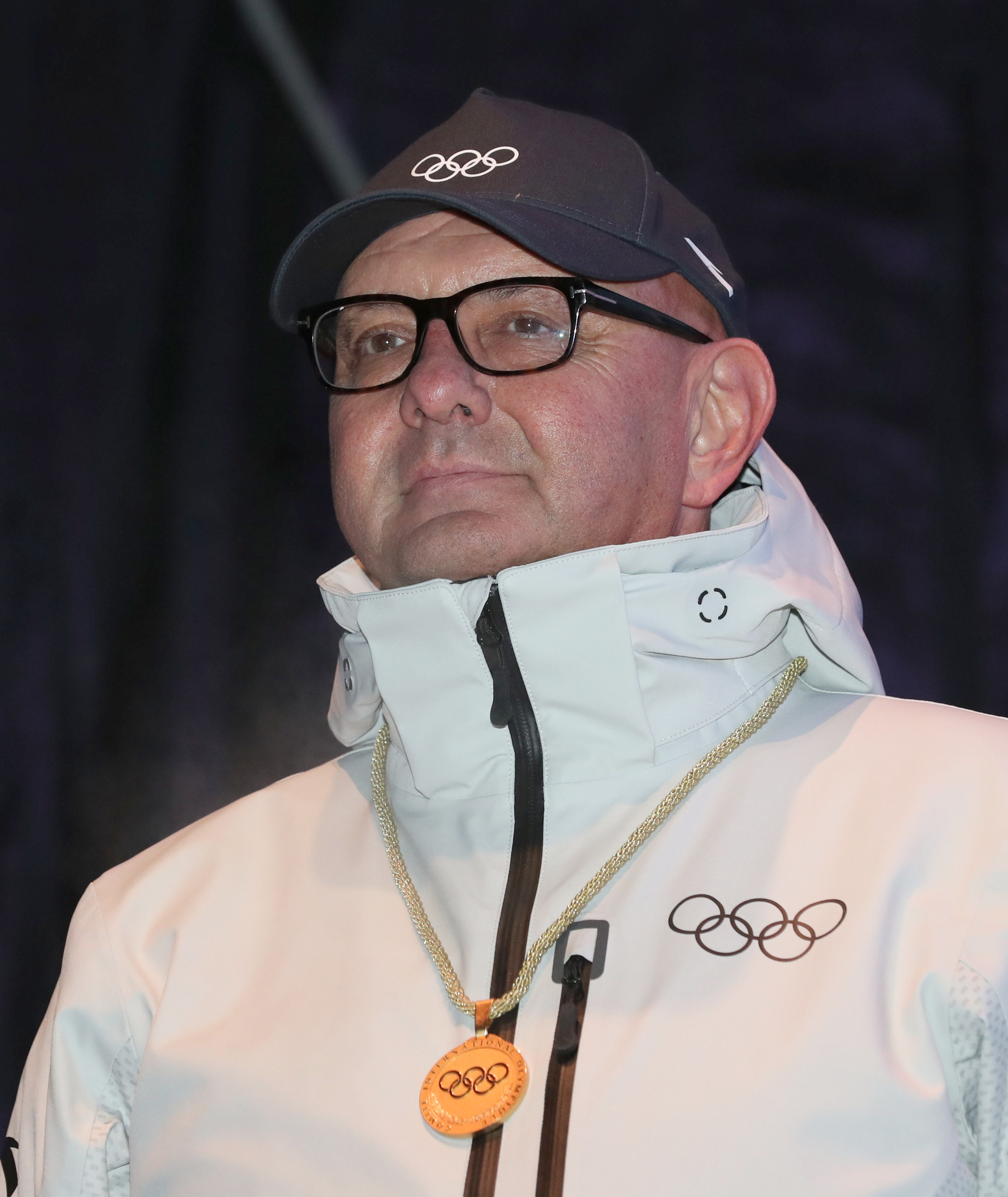 Medal Ceremony Day 9 in St. Moritz, 2020 Winter Youth Olympics in Lausanne